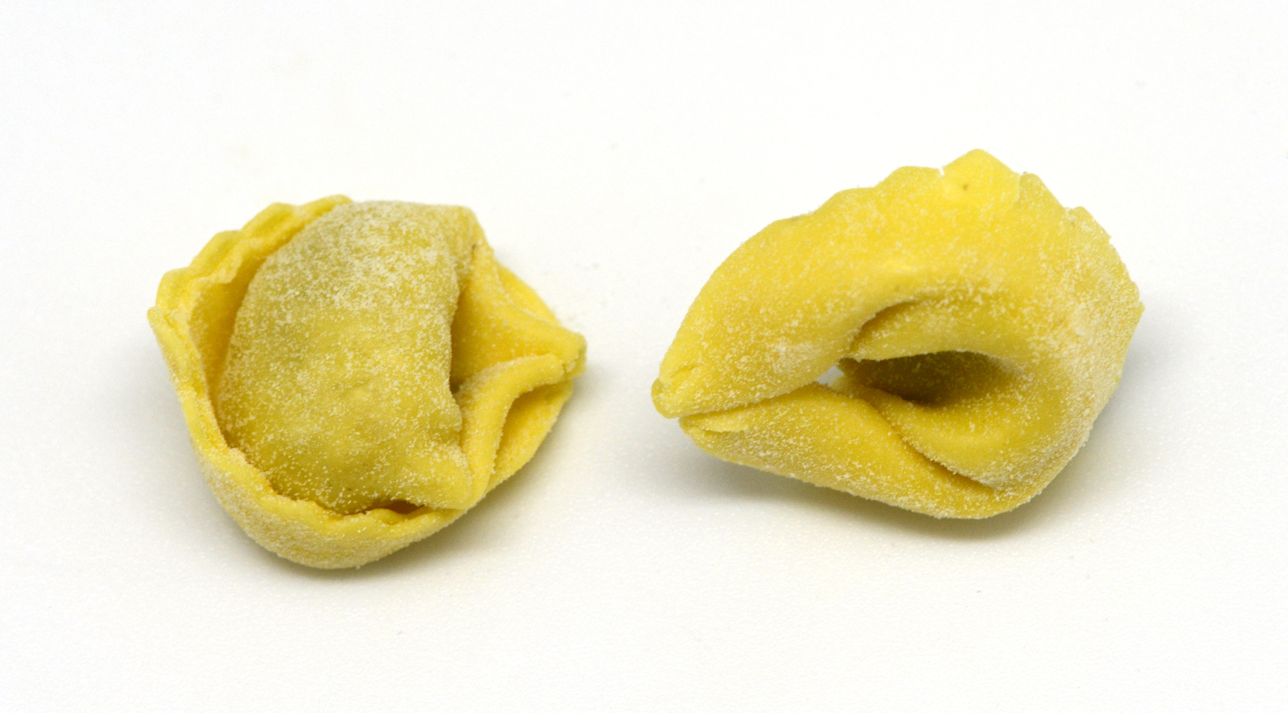 Tortelloni, a type of Italian pasta